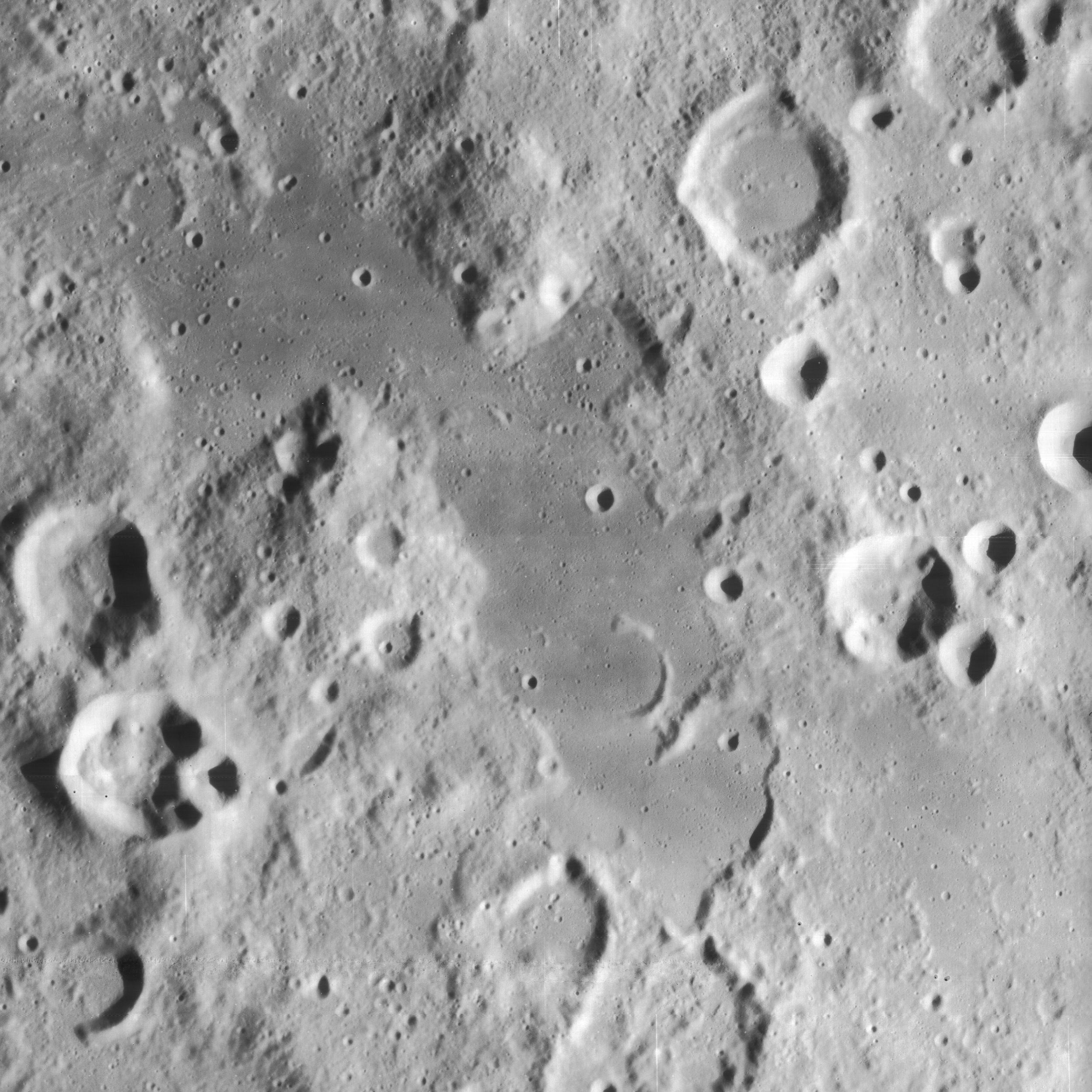 Lacus Timoris, on the moon. North is to upper right.